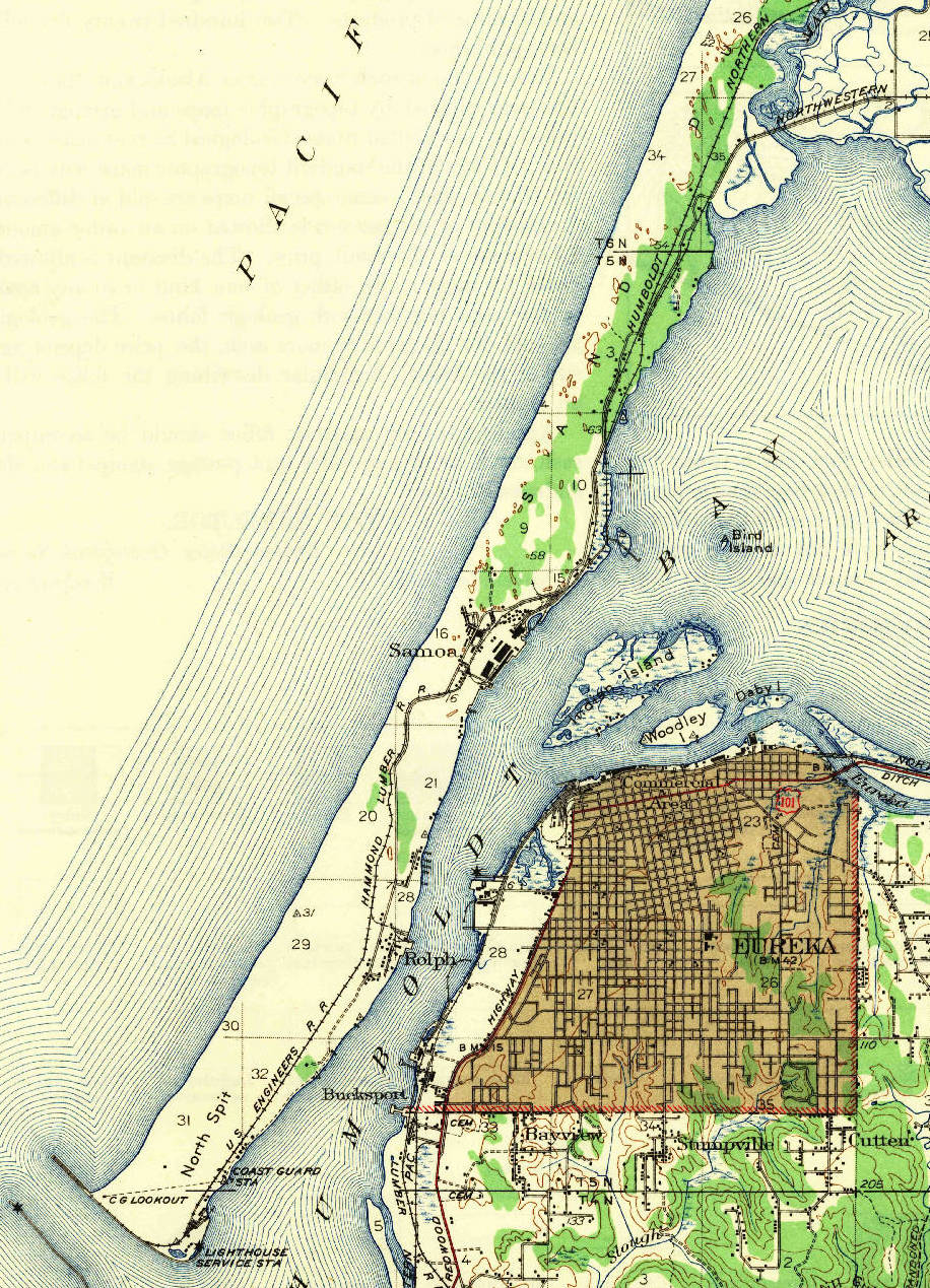 Hammond Lumber Company railroads brought logs and lumber to Samoa from Little River and Big Lagoon until the railway trestles were destroyed by wildfire in 1945